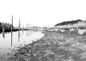 A view of the Sunken Village Archaeological Site in Oregon, USA